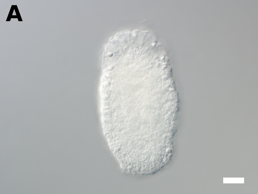 Rhizostoma luteum, life cycle A: planula larva with a two-layered structure, scale bar 20 µm